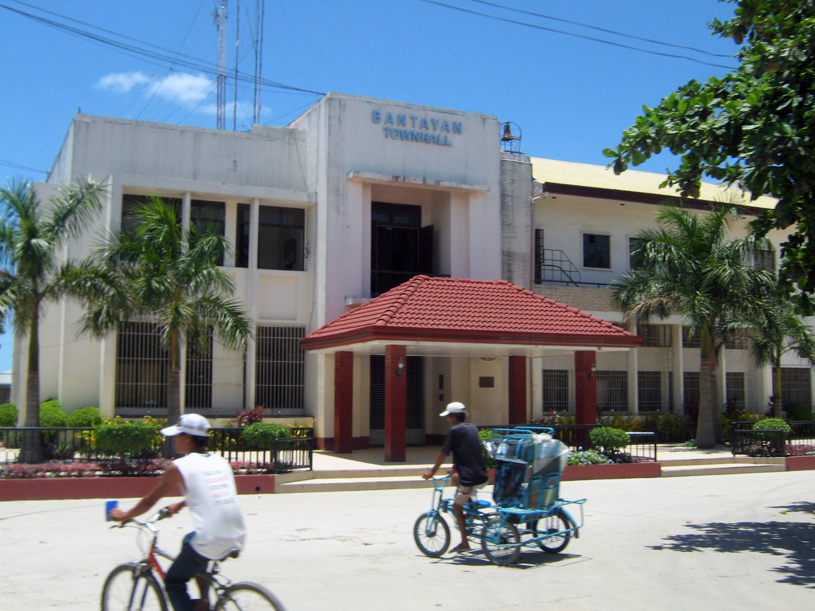 Municipal Hall of Bantayan, Cebu on Bantayan Island, Cebu, Philippines